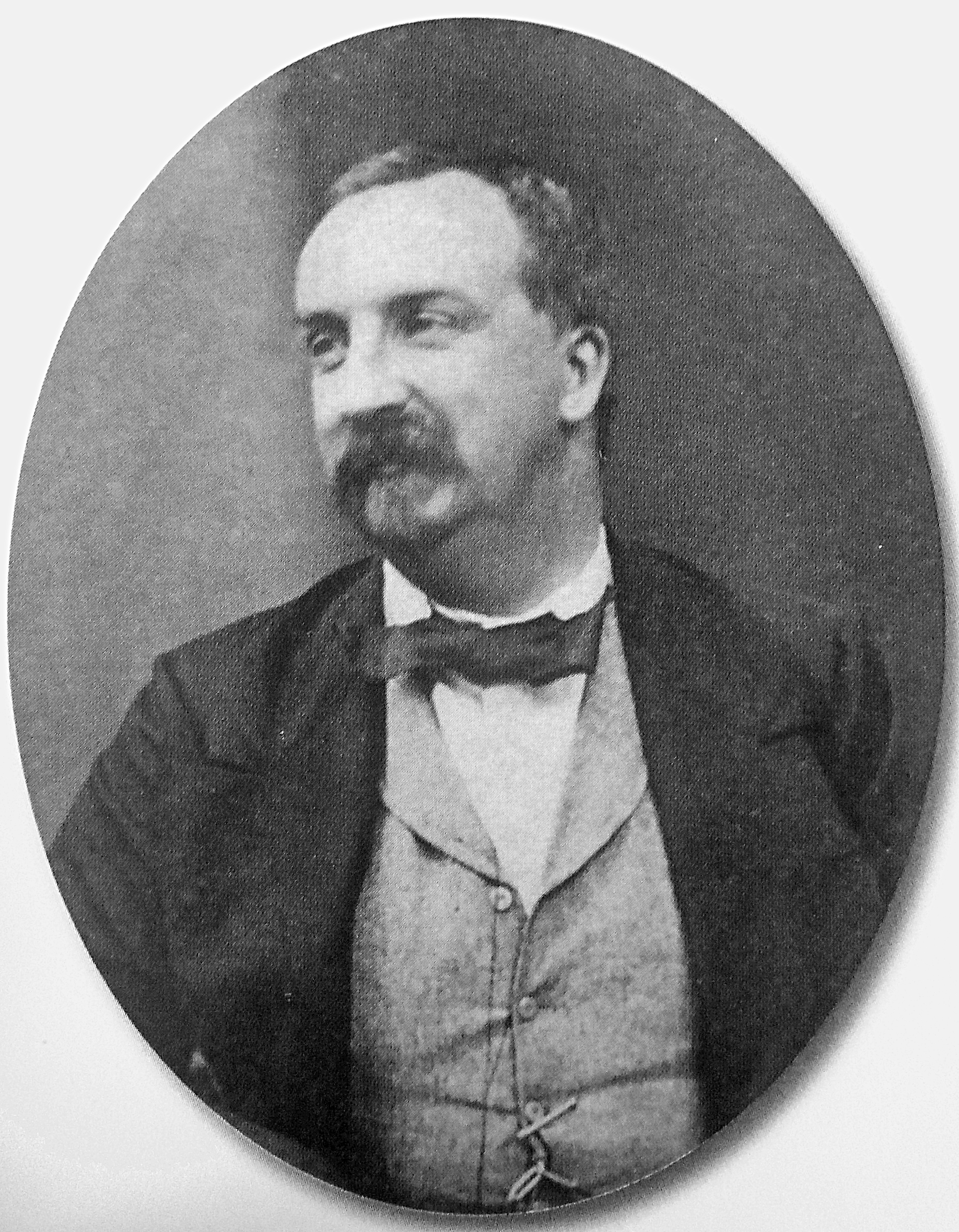 Antoine d'Orléans Duque Montpesier photograph